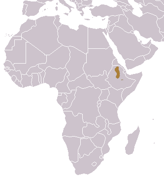 Gelada (Theropithecus gelada) range